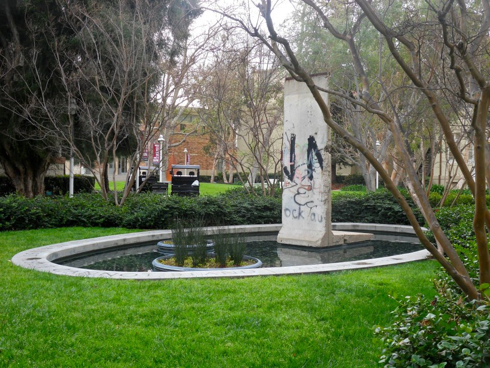 Part of the Berlin wall at Chapman University, Orange, CA